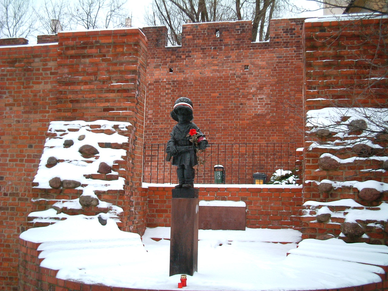 Monument to the Little Insurgent in Warsaw